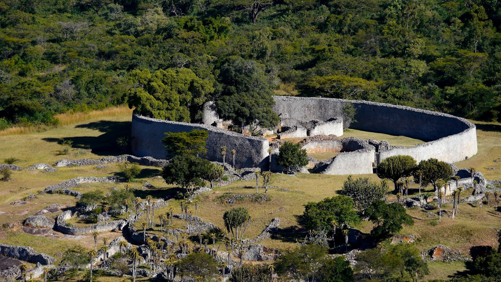 believed to be ruins of the motapa empire but archeology is proving them to be older This is an image of music and dance from Zimbabwe